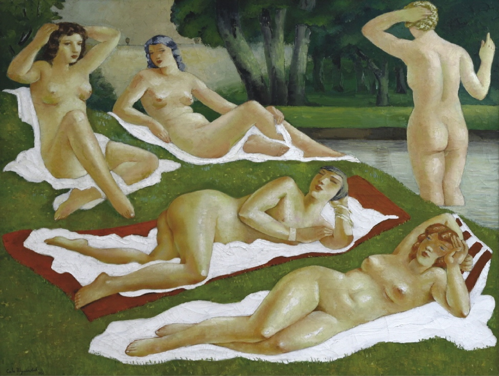 Sava Sumanovic "By the Grove" (Kiki), 1935